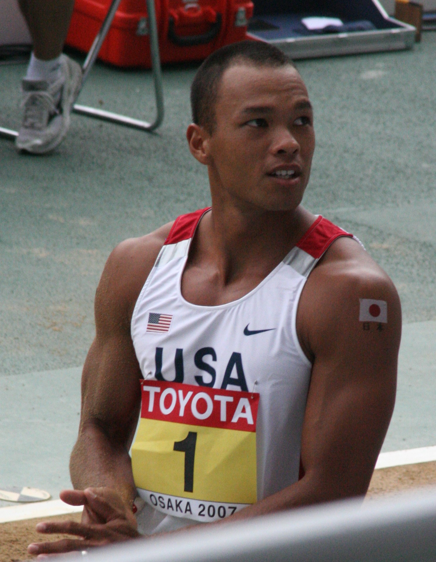 World Athletics Championships 2007 in Osaka - Decathlete Bryan Clay during the long jump part of the decathlon